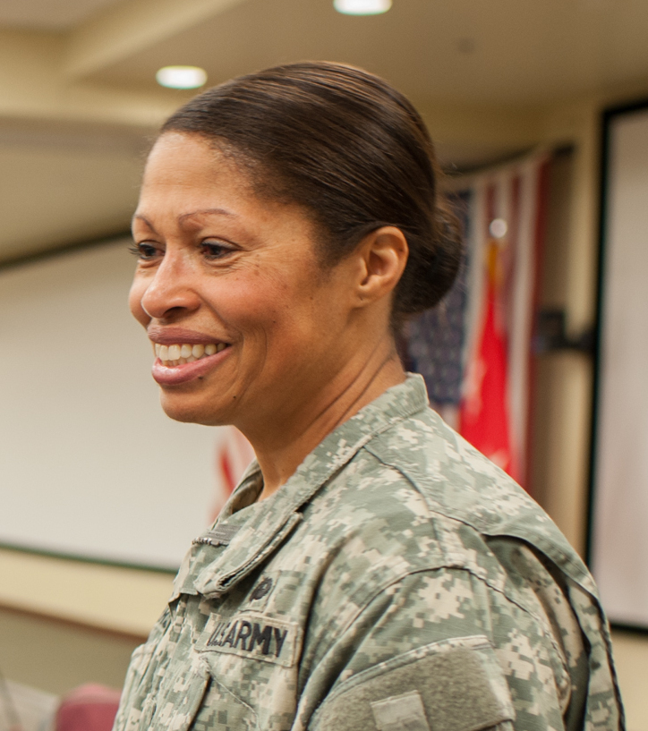 Maj. Gen. Marcia M. Anderson, right, the deputy chief, U.S. Army Reserve, was the guest speaker at a Women's History Month observance at the U.S. Army Reserve Command headquarters at Fort Bragg, N.C., March 25, 2014. Anderson, the Army's first African American female major general highlighted the accomplishments of women dating back to the Revolutionary War and the current evaluation process of opening previously closed military occupations to women. (U.S. Army photo by Timothy L. Hale/Released)